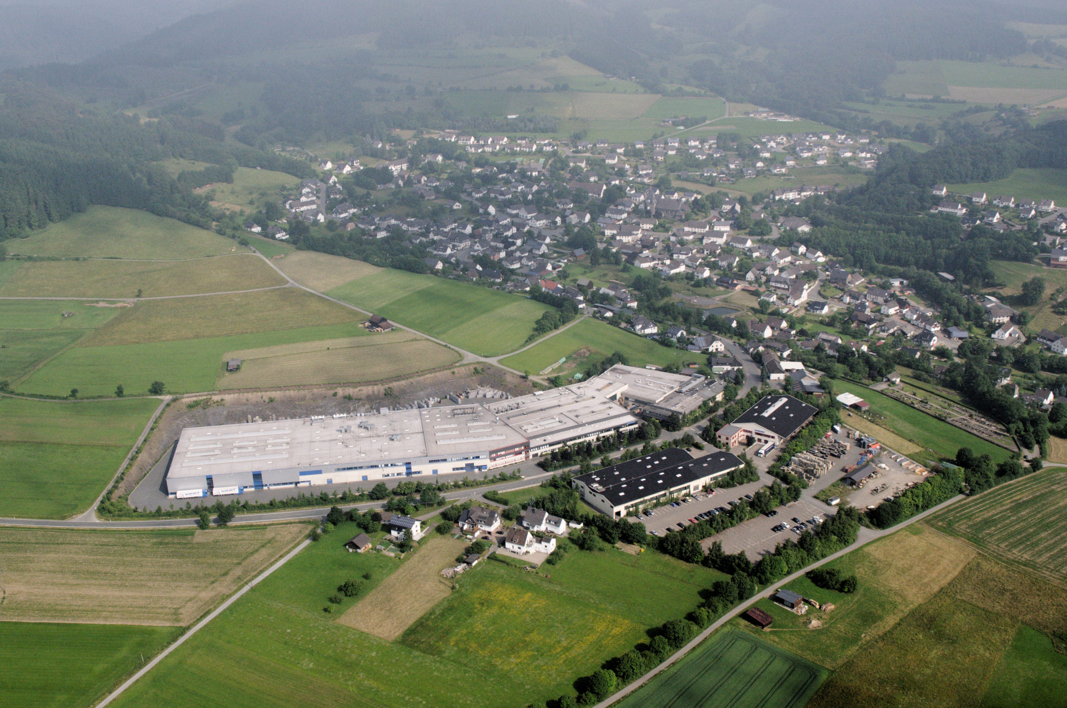 Fotoflug Sauerland-Ost: Borbet GmbH von Süden, Stammwerk Hallenberg-Hesborn. The making of this document was supported by the Community-Budget of Wikimedia Germany.